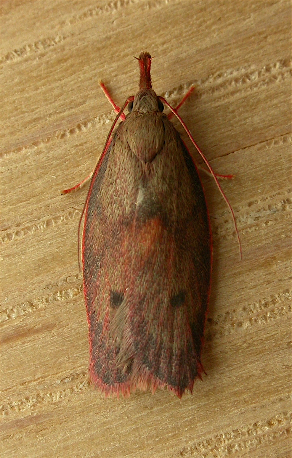 An undetermined Enchocrates species, Aranda, ACT, Australia.